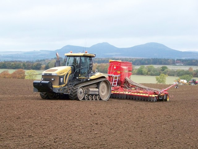 CAT Challenger and Väderstad pneumatic seed drill, near to Fairnington, Scottish Borders, Great Britain. Seeding arable land at Muirhouselaw, with the Eildon Hills in the distance. Photograph taken on a typical dull autumn day.